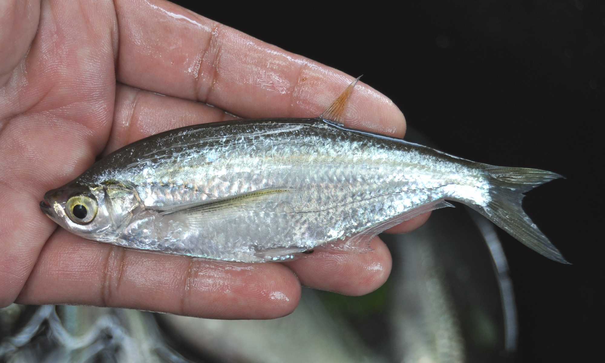 Parachela oxygastroides, 122 mm SL (standard length). From Kampung Lembonah, Jempang, Kutai Barat, East Kalimantan, Indonesia.